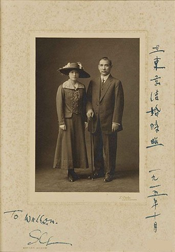 Oct 25, 1915, Sun Yat-sen married Soong Ching-ling at Tokyo, Japan.